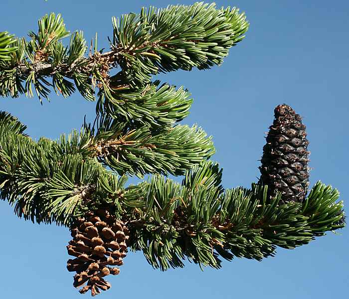 A branch of a Bristlecone Pine in the Snake Range of Nevada, showing the closely grouped needles, an immature cone (right), and a mature cone (left).